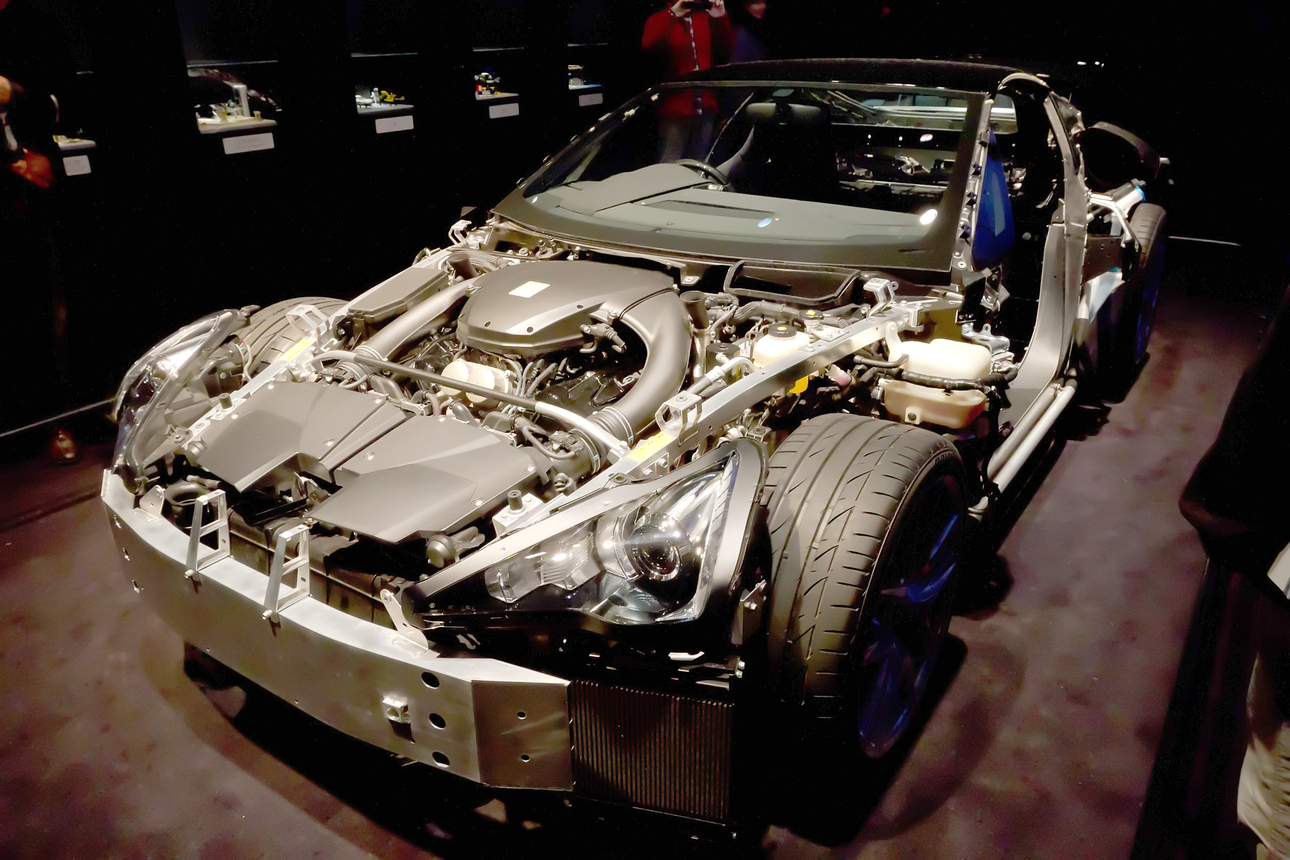 Tokyo Motor Show 2011: Lexus LFA Nürburgring Package (1-#122 test car) bare chassis